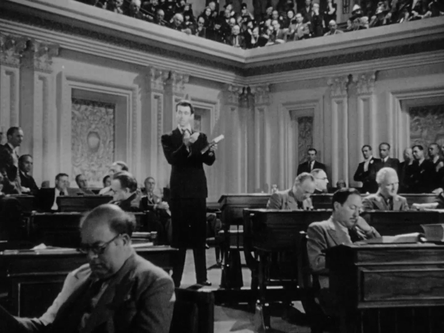 Cropped screenshot of James Stewart from the trailer for the film Mr. Smith Goes to Washington